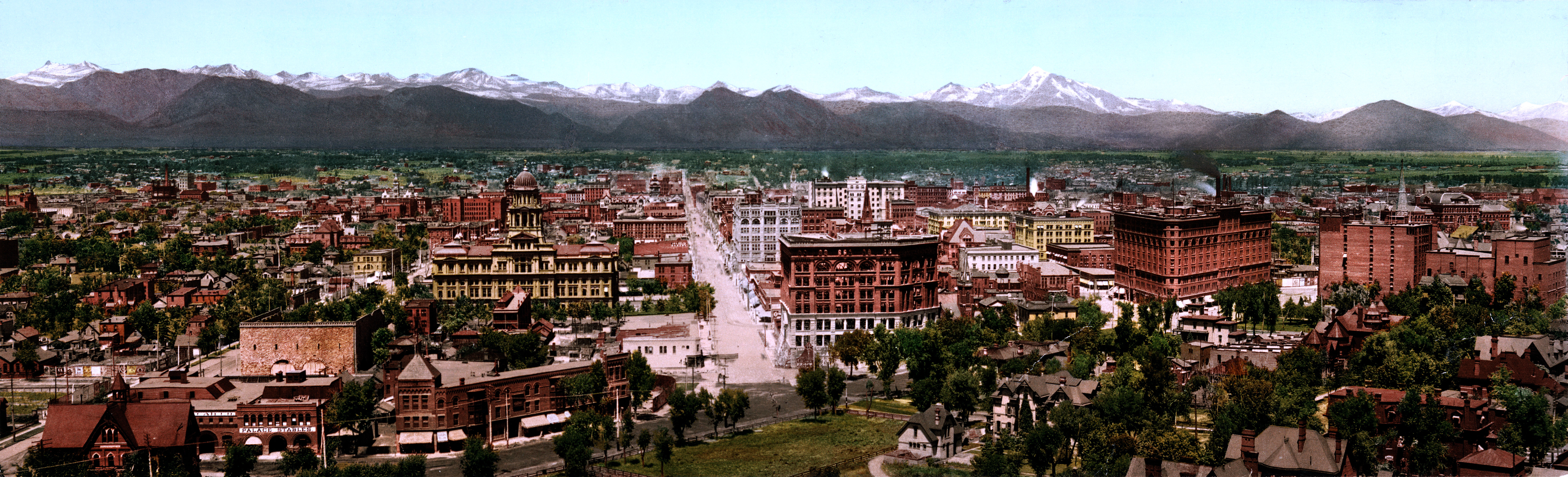 Panorama photo of Denver, capital of Colorado and the Eastern gateway to the Rocky Mountains. The view depicted is looking northwest down 16th Street, image taken from Colorado State Capital.